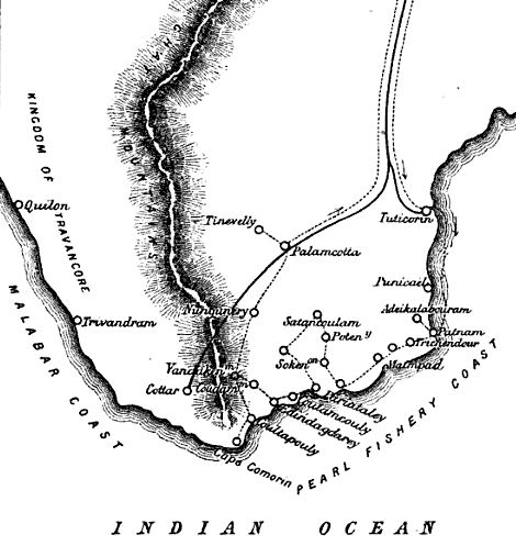 Map_of_the_Pearl_Fishery_Coast_1889